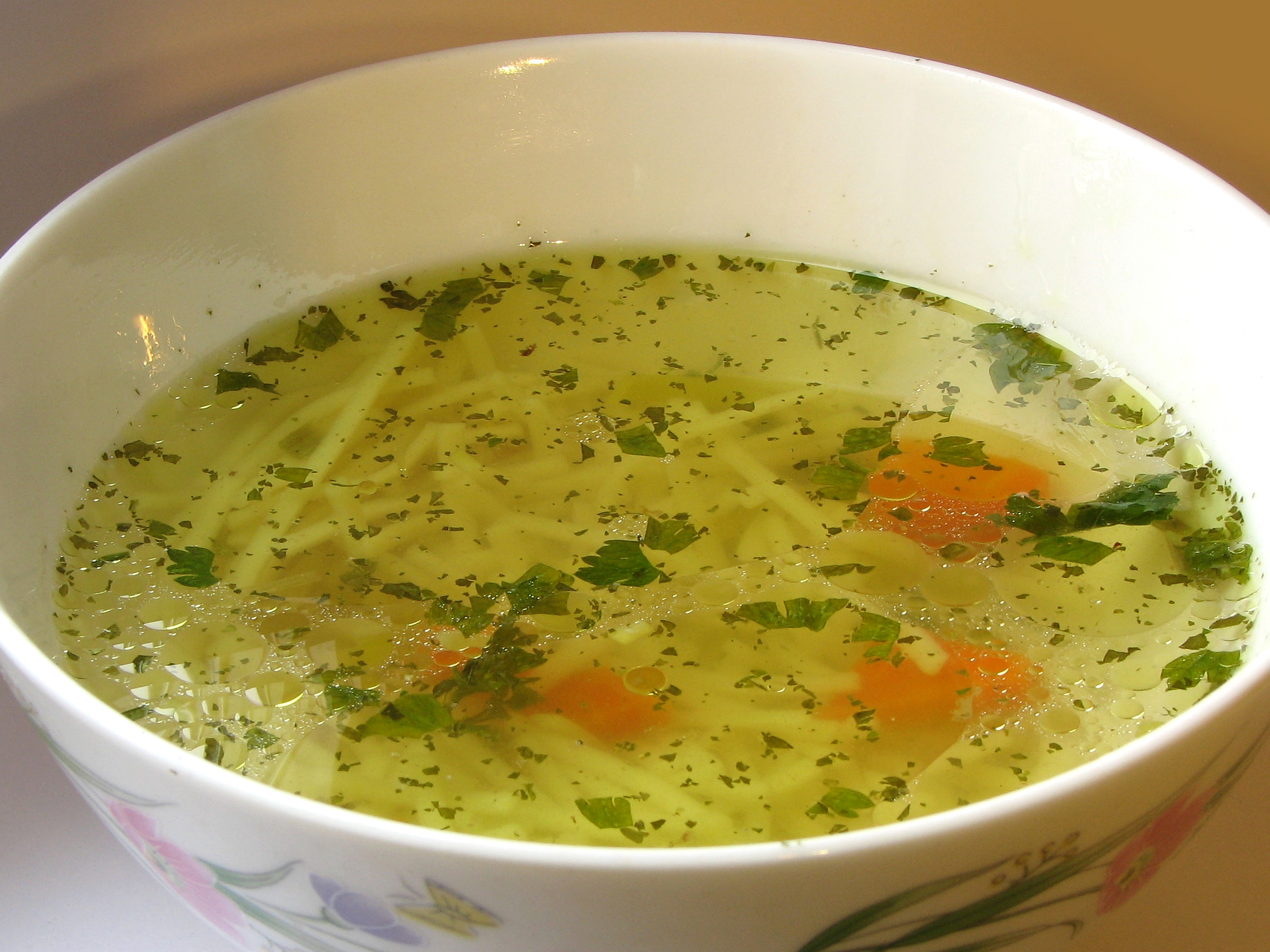 Chicken broth